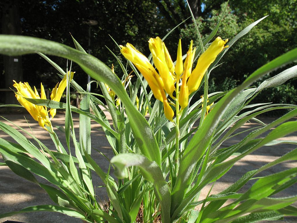 Pitcairnia piepenbringii in cultivation at the Botanical Garden of Heidelberg, Germany.